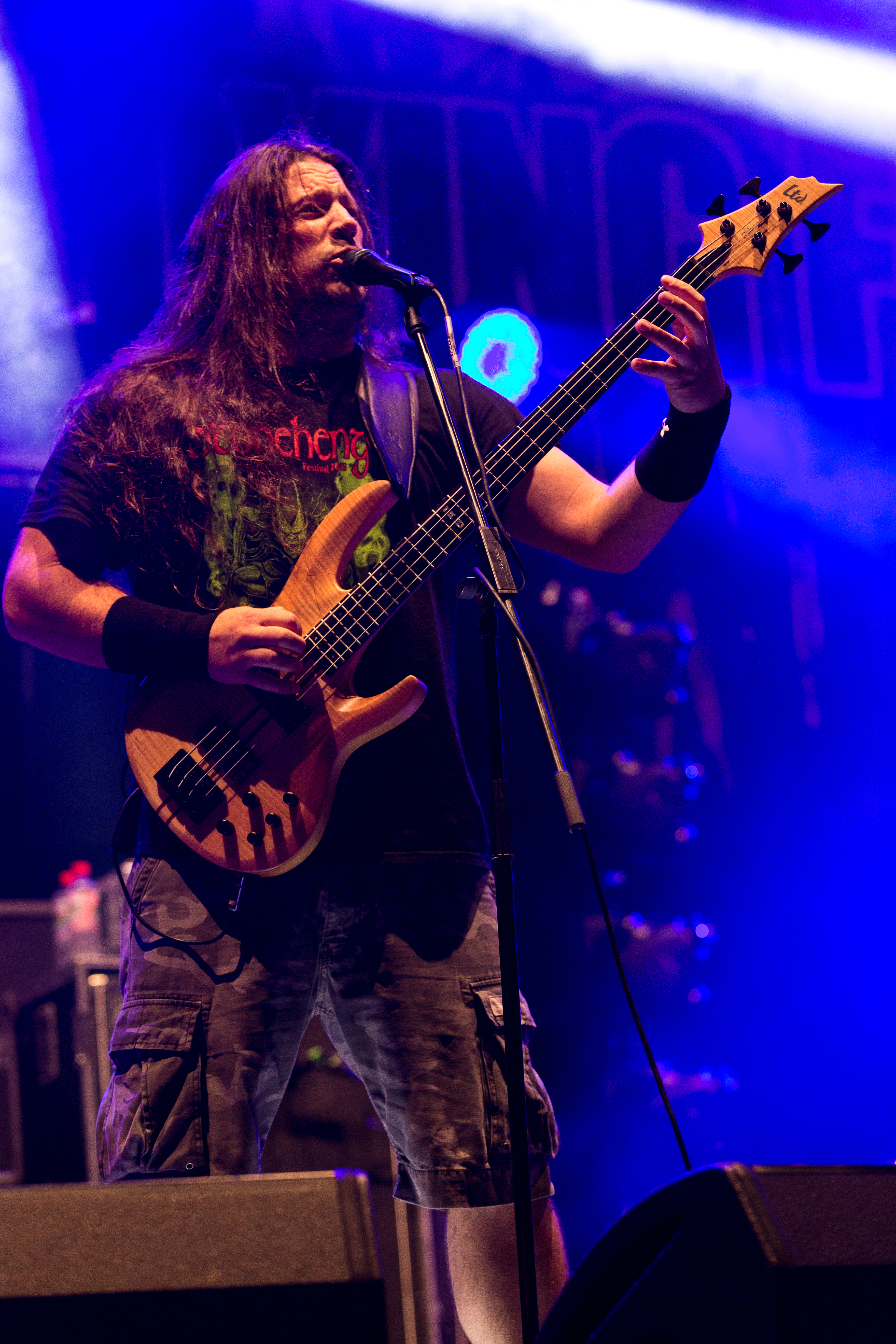 The American death metal band Dying Fetus at the Party.San Metal Open Air 2016 in Obermehler-Schlotheim/Germany.